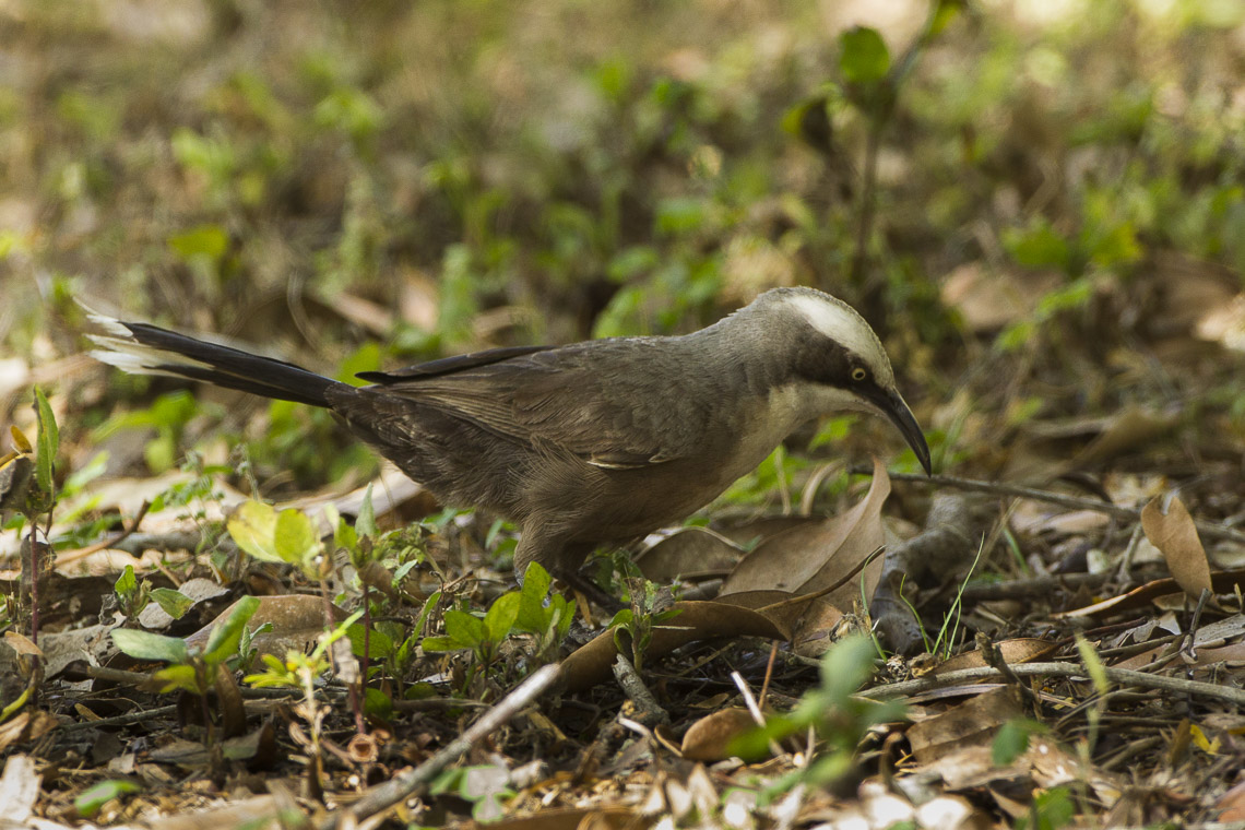 Grey-crowned Babbler - Mareeba Wetlands - Queensland_S4E9179